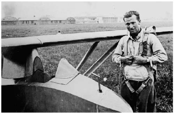 Ricardo Dyrgalla with a glider at an air meet in 1936 in Poland